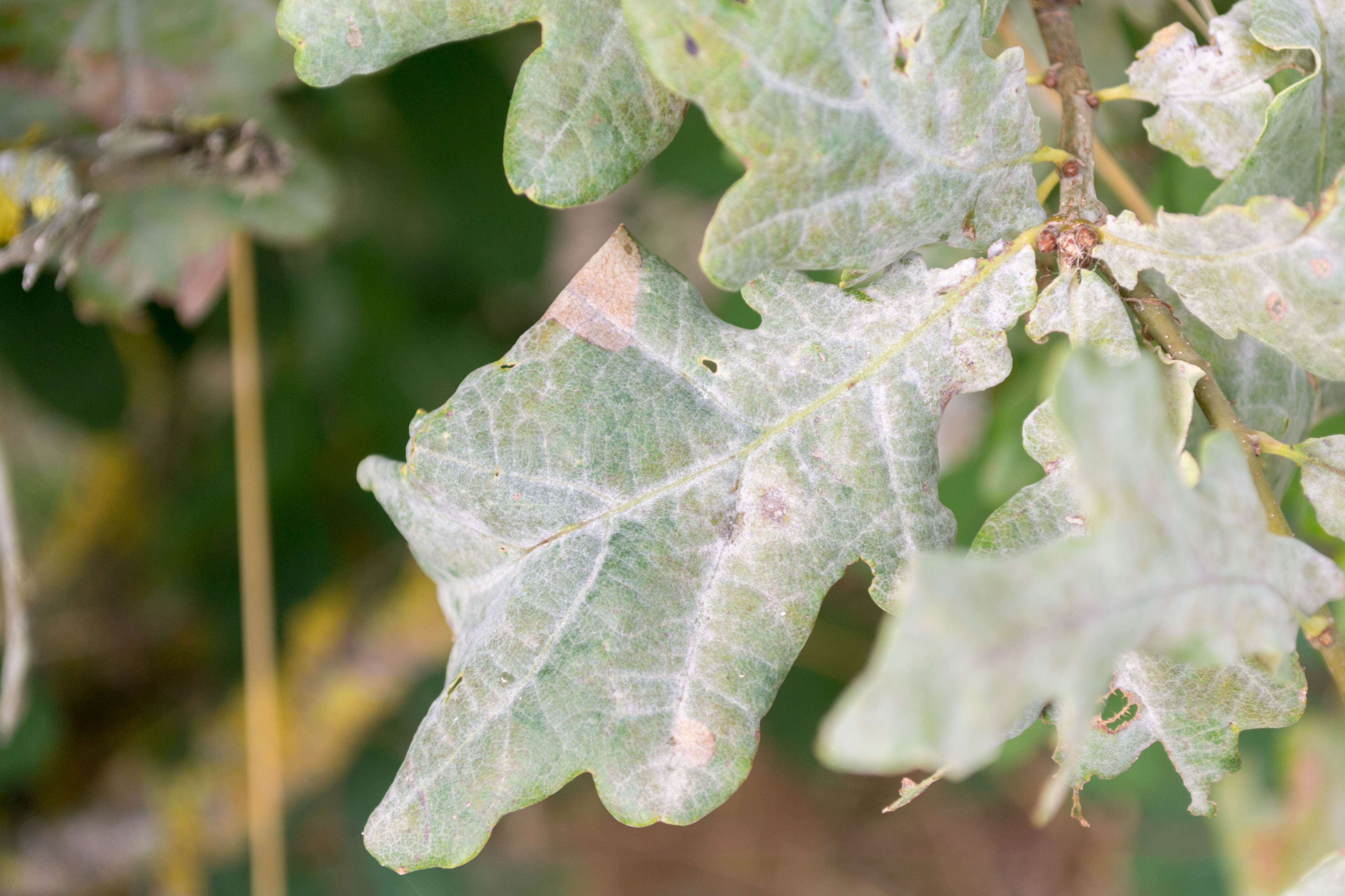 Close-up of powdery mildew on pedunculate oak